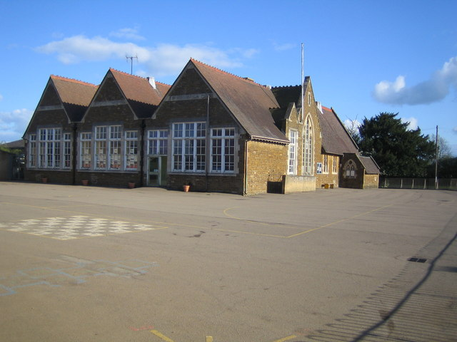 Middleton Cheney Community Primary School. Built of the local ironstone, the School is on the corner of the High Street and the Main Road, and is shown on the Ordnance Survey map dated 1891.